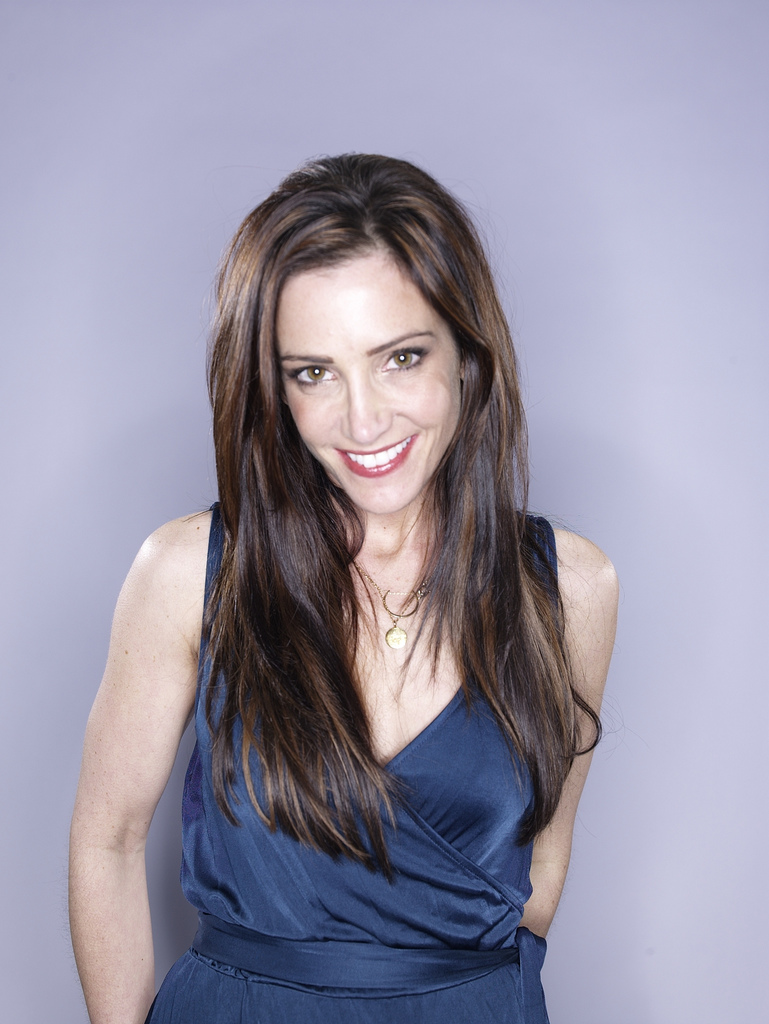 Photo of author, radio and tv personality, actress, producer and relationship/sex adviser Emily Hope Morse.